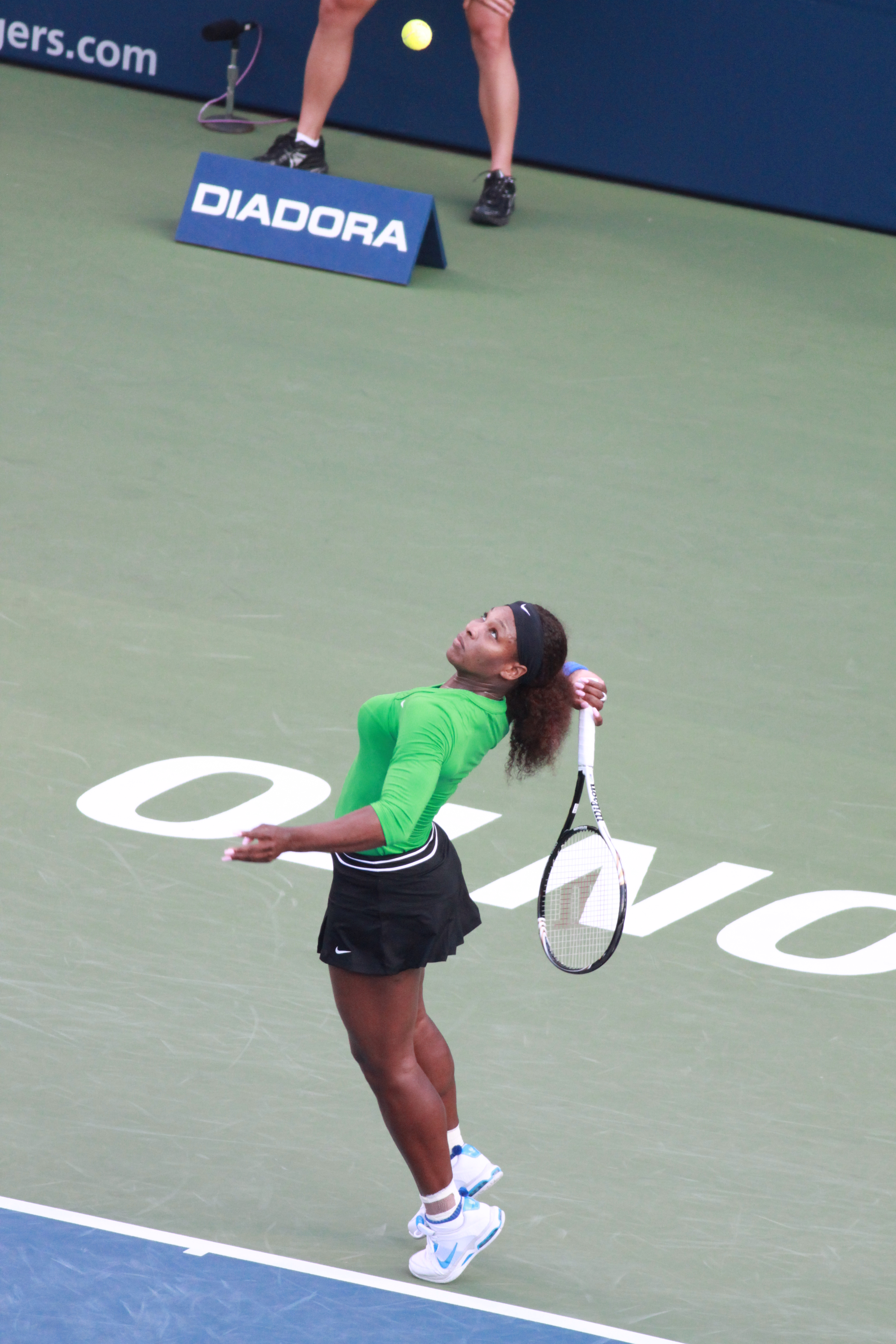 Rogers Cup 2011 Semifinal 2 Serena Williams vs Victoria Azarenka